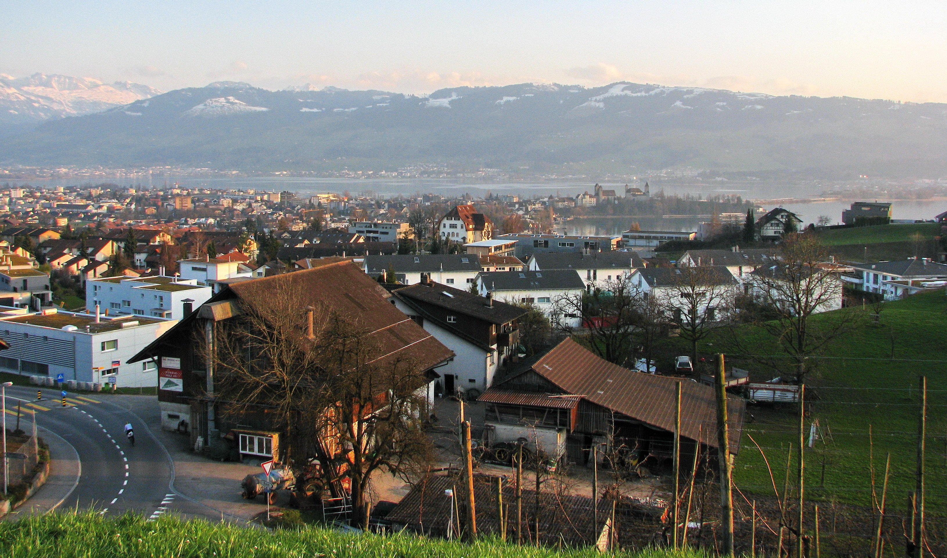 Rapperswil-Jona (Switzerland), as seen from Kempraten-Lenggis, Jona to the left, Rapperswil and Seedamm to the right, Obersee (upper Lake Zürich) in the background to the left.